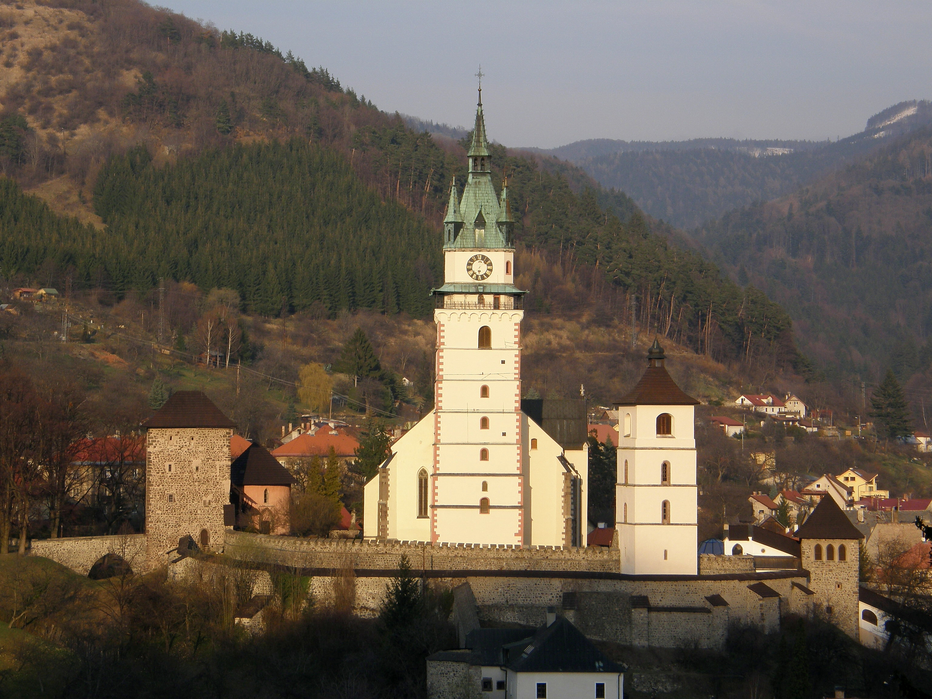 Kremnica Castle, IV/2008